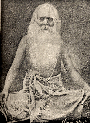 This JPEG image was created by Wiki user Aaroamal by digitizing a printed reproduction of the photograph in the S. N. D. P. Yogam Golden Jubilee Souvenir published in 1953. The original photograph was first published circa 1915 by the Vijaya Studio of Trivandrum and was widely used in the public domain. In accordance with Section 25 of the Indian Copyright Act of 1957 and amendments thereto, the Term of Copyright in the case of a photograph, shall subsist until fifty (50) years from the beginning of the calendar year next following the year in which the photograph is published. The original photograph is therefore past the term restriction on reproduction and publication.